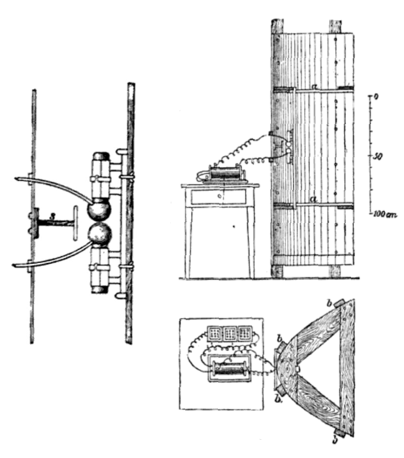 Drawing of early 450 MHz spark-gap radio transmitter and parabolic antenna used by German physicist Heinrich Hertz in 1888 during his historic first researches on radio waves (Hertzian waves), from his 1893 book. This is the earliest example of a parabolic antenna. The antenna is described on p. 175 of the source as a 2 m x 2 m sheet of zinc attached to a wooden frame to make a cylindrical parabolic reflector with aperture 2 m high by 1.2 m wide, with focal length of 12.5 cm. Along the focal line is suspended a Hertzian dipole antenna consisting of two 1 cm dia. brass rods about 13 cm long, with metal balls attached to its adjacent ends to make a spark gap about 3 mm wide. The drawing on the left shows a closeup of the dipole. The dipole elements were attached to an induction coil powered by a battery on a table behind the antenna, which applied high voltage pulses which caused sparks in the spark gap, exciting high frequency oscillations in the dipole. The wavelength of the waves produced was measured by Hertz at 66 cm, making the corresponding frequency 454 MHz. Hertz used a similar parabolic antenna with a spark gap for receiving. With these he performed historic experiments demonstrating standing waves, diffraction, refraction and polarization of radio waves, proving that radio waves are electromagnetic waves like light waves, thus confirming the 1867 theory of James Clerk Maxwell.